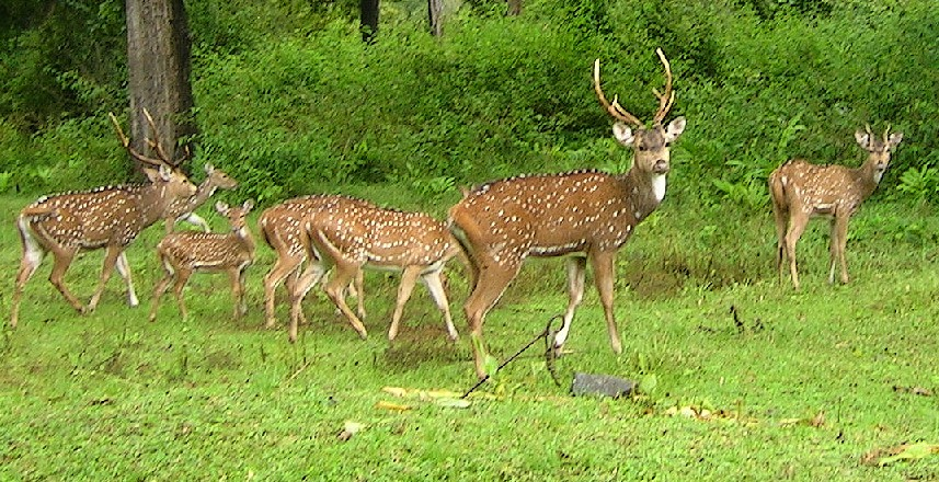 Herd of Spotted Deer, Chital, Nagerhole, India